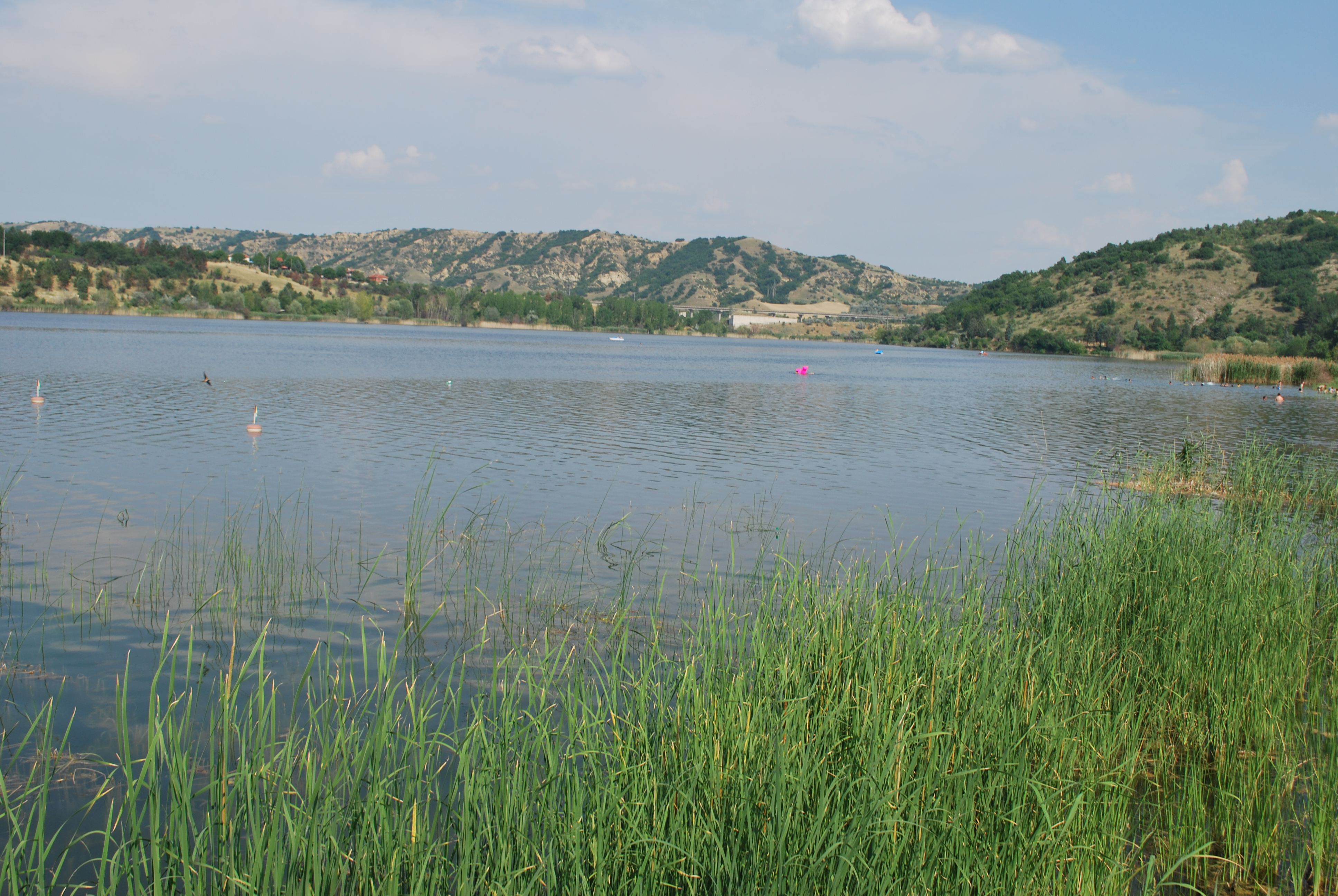 Lake Mladost, near Veles, Macedonia